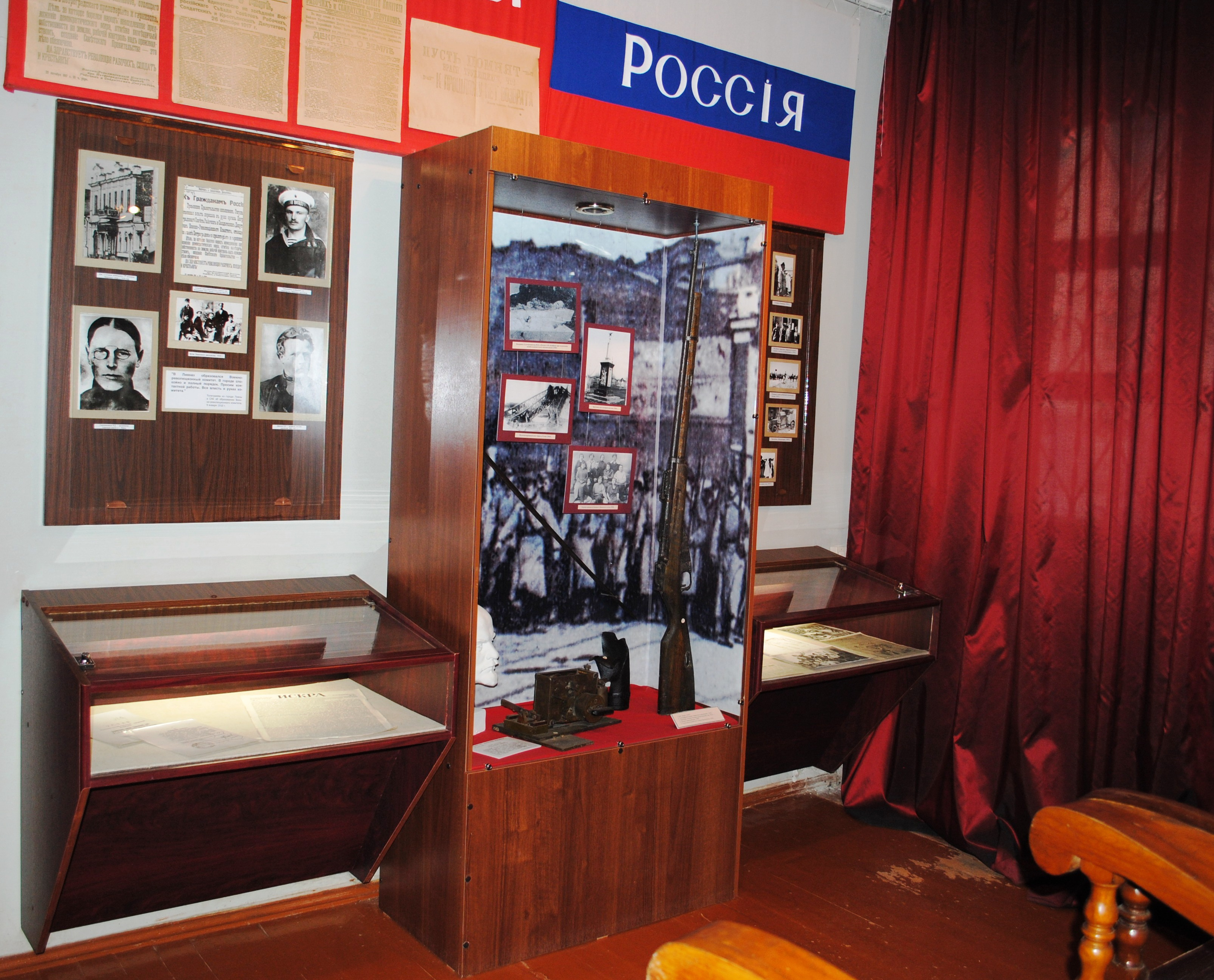 History Museum of Livny